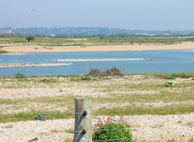 Lake with islands in Rye Harbour Nature Reserve This was taken on the Sussex Coastline Walk.